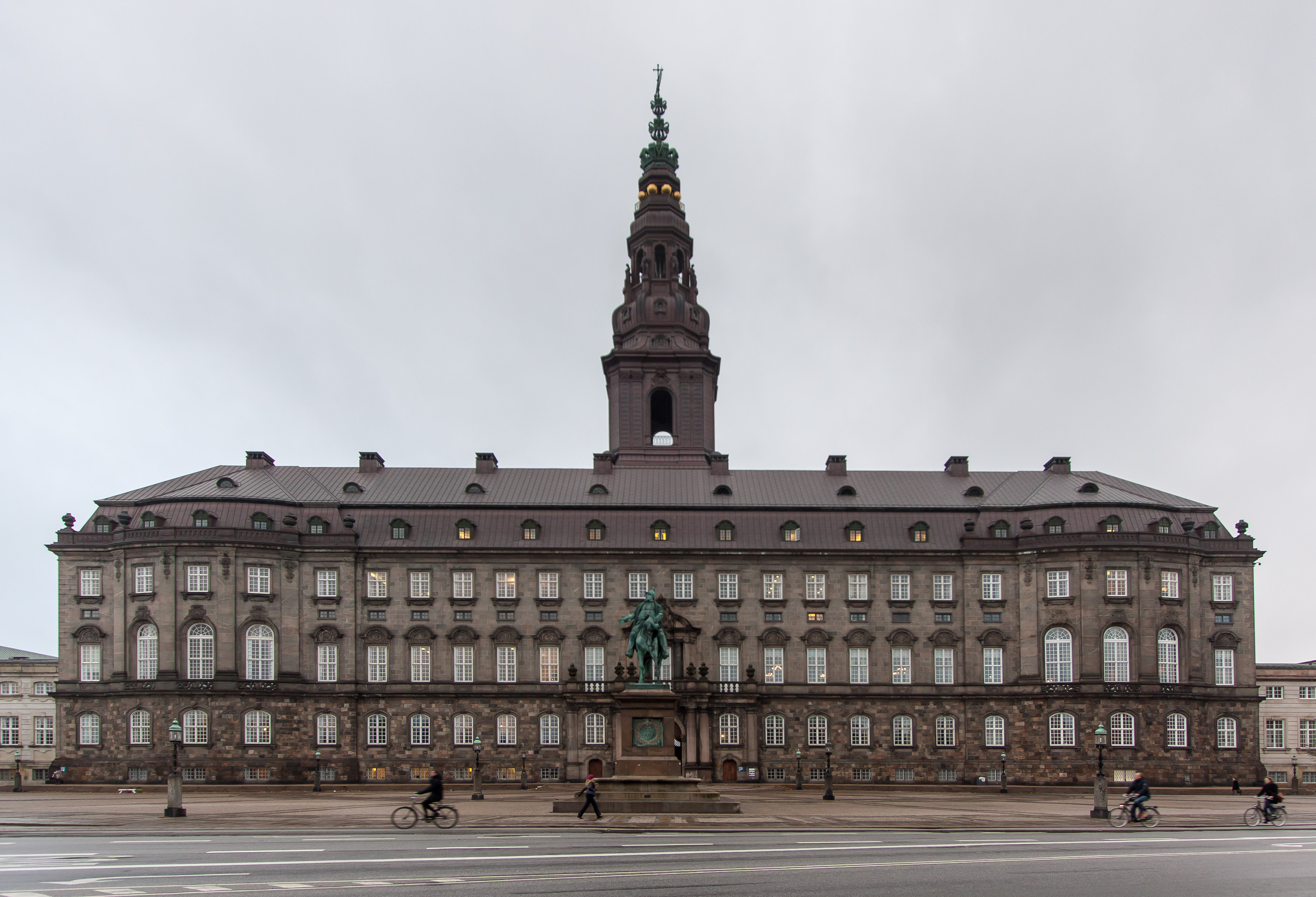 The facade of Christiansborg Palace, Copenhagen. Seen from the Palace Square. Wide angle photo with perspective correction.